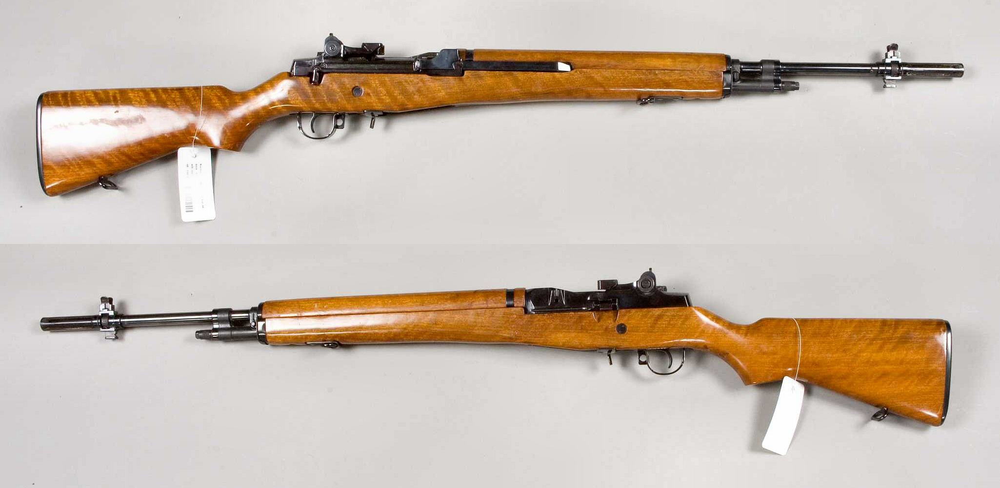 M14 rifle, USA. Caliber 7.62x51mm. Special presentation rifle, serial #0010. Presented to Major General E M S Malm, Chief of Ordnance Swedish Army, by Lieutenant General A.G. Trudeau, Chief of Research and Development U.S., and Lieutenant General J.H. Hinrichs, Chief of Ordnance. U.S. Army. August 1961. From the collections of Armémuseum (Swedish Army Museum), Stockholm.